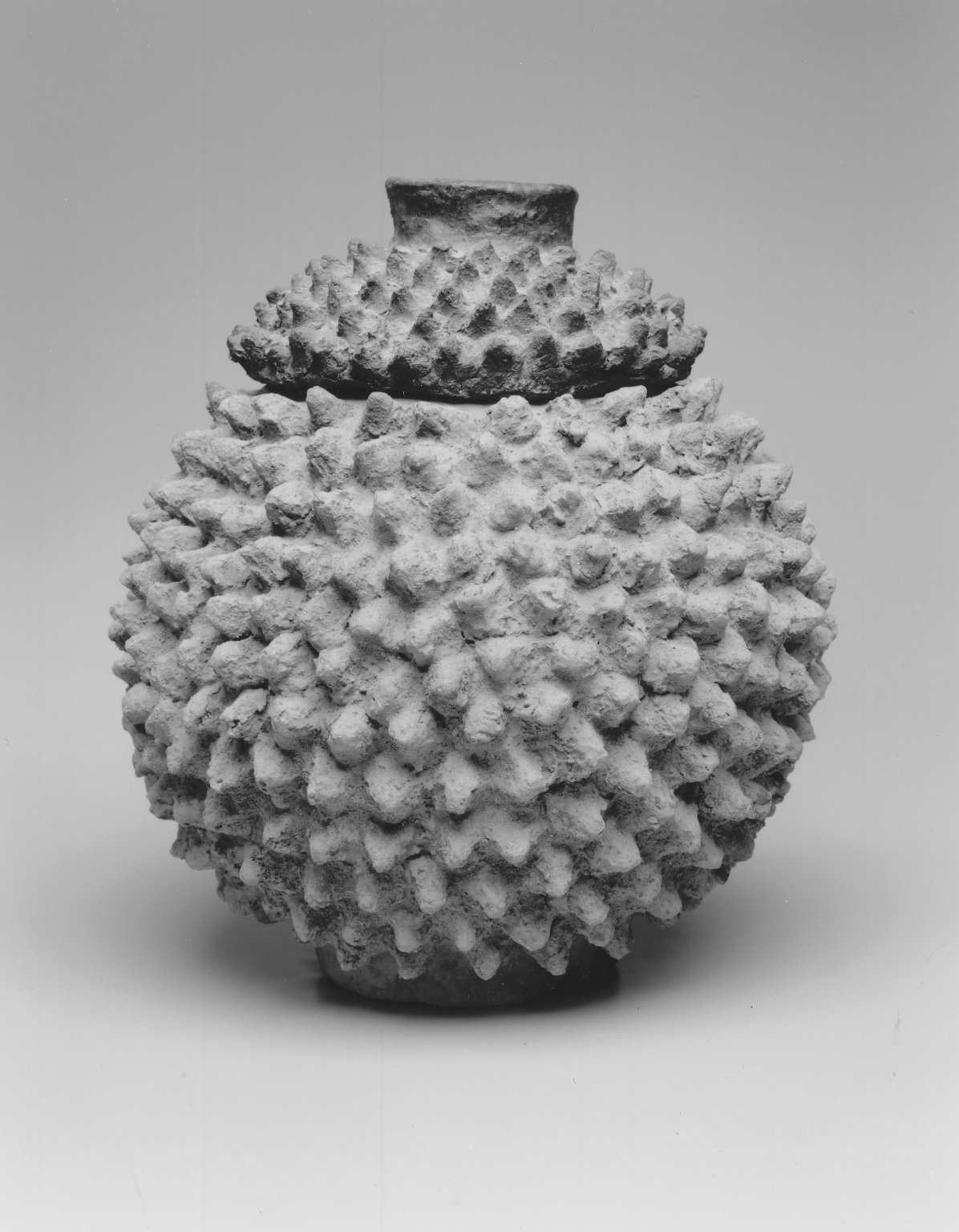 Storage Jar with Lid